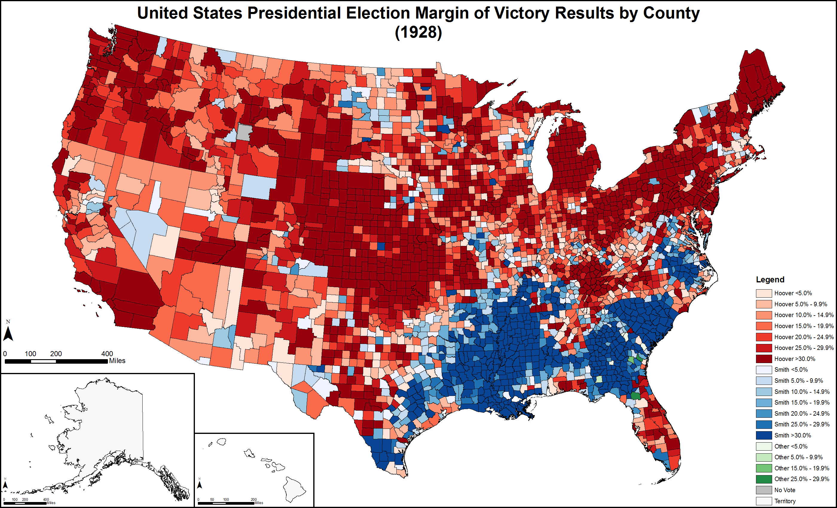 Presidential election margin of victory results by county (1928). Colors based on Colorbrewer 2.0.